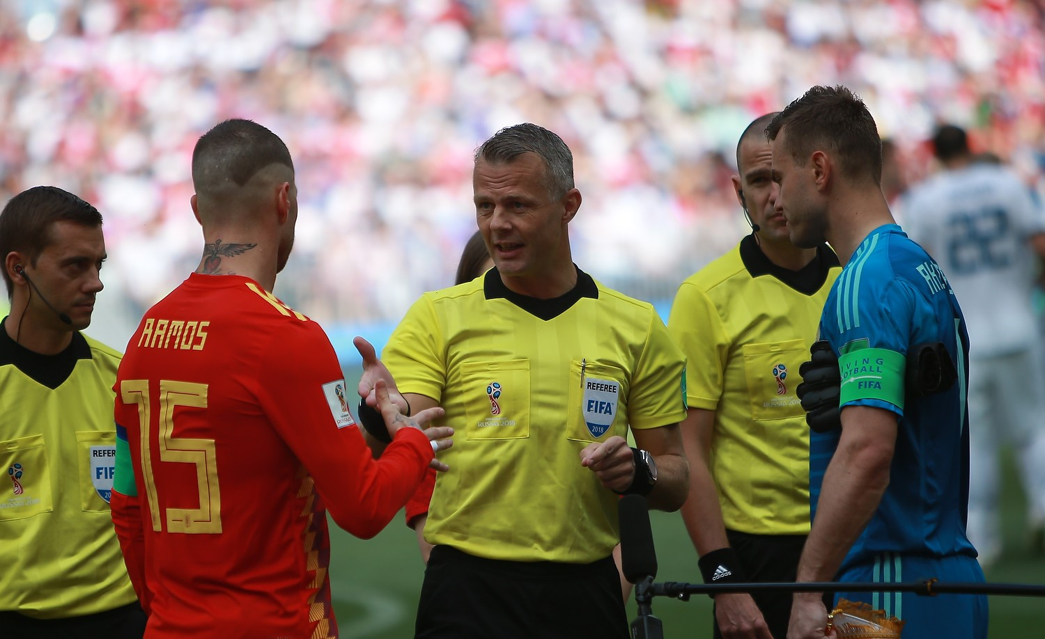 Igor Akinfeev, Björn Kuipers, Sergio Ramos